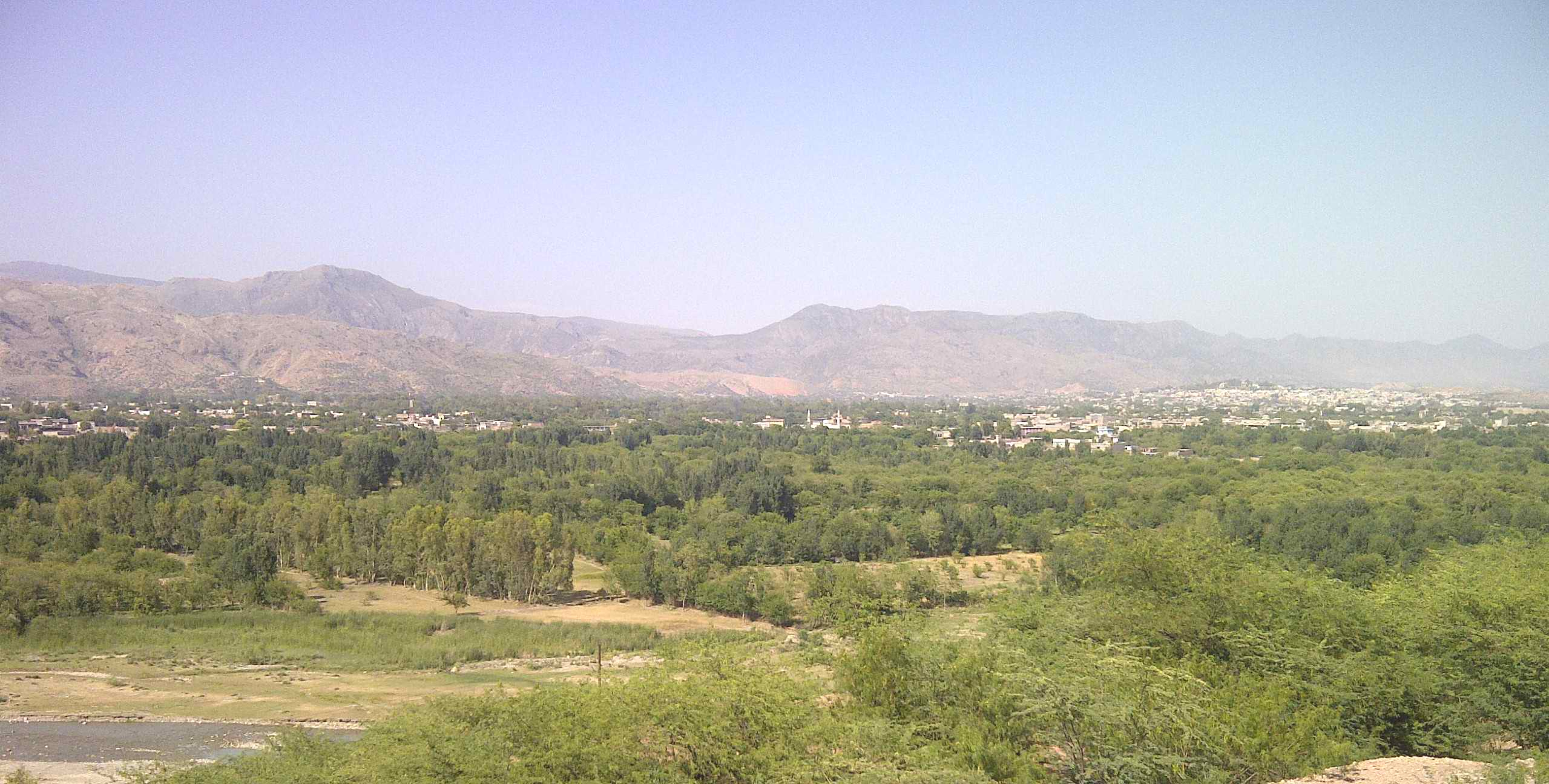 Kohat as seen from Tanda mountains